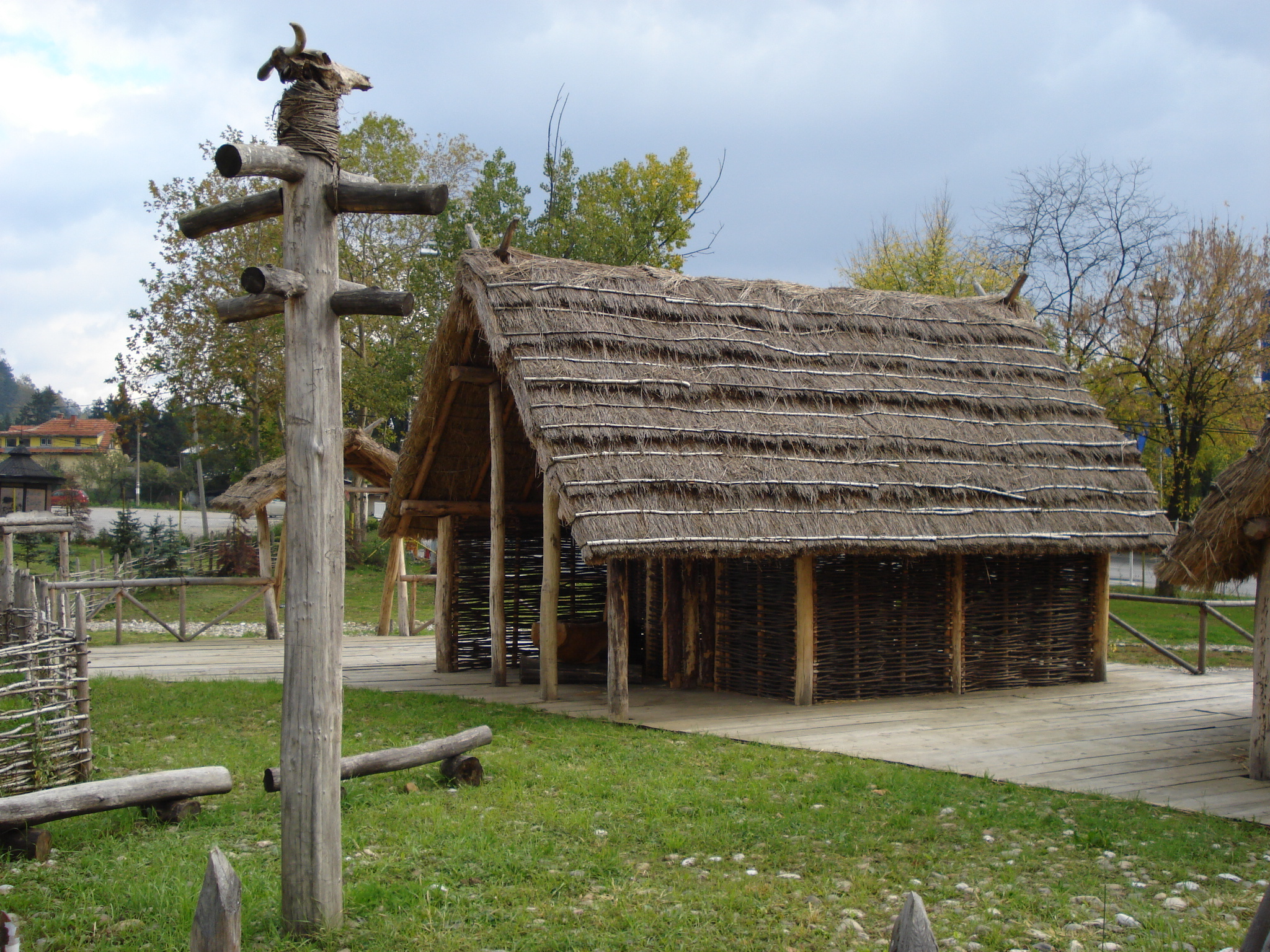 Photographed in Tuzla, Bosnia and Herzegovina.